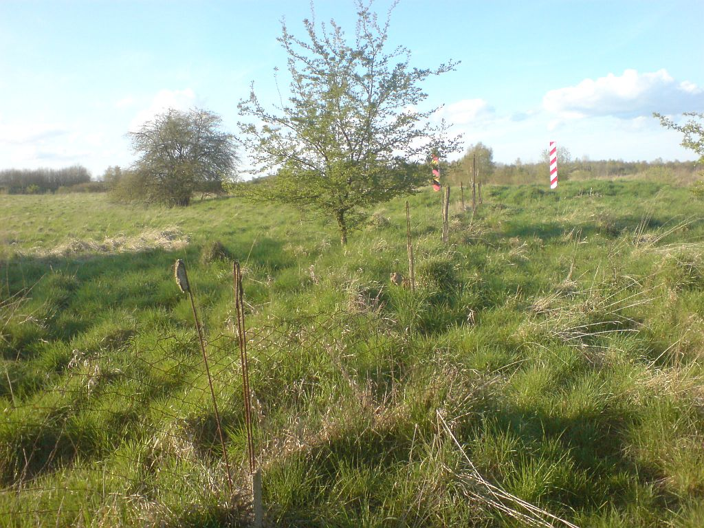 A very old border fence between Poland and Germany, near the villages of Rosow and Rosówek. Poland entered Schengen zone at midnight 20/21.12.2007